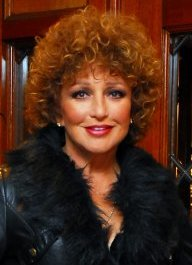 Angelica Maria during 2010